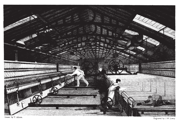 Mule Spinning in action: Capture from Baines 1835, Illustrations from the History of the Cotton Manufacture in Great Britain .Pub H. Fisher, R. Fisher, and P. Jackson